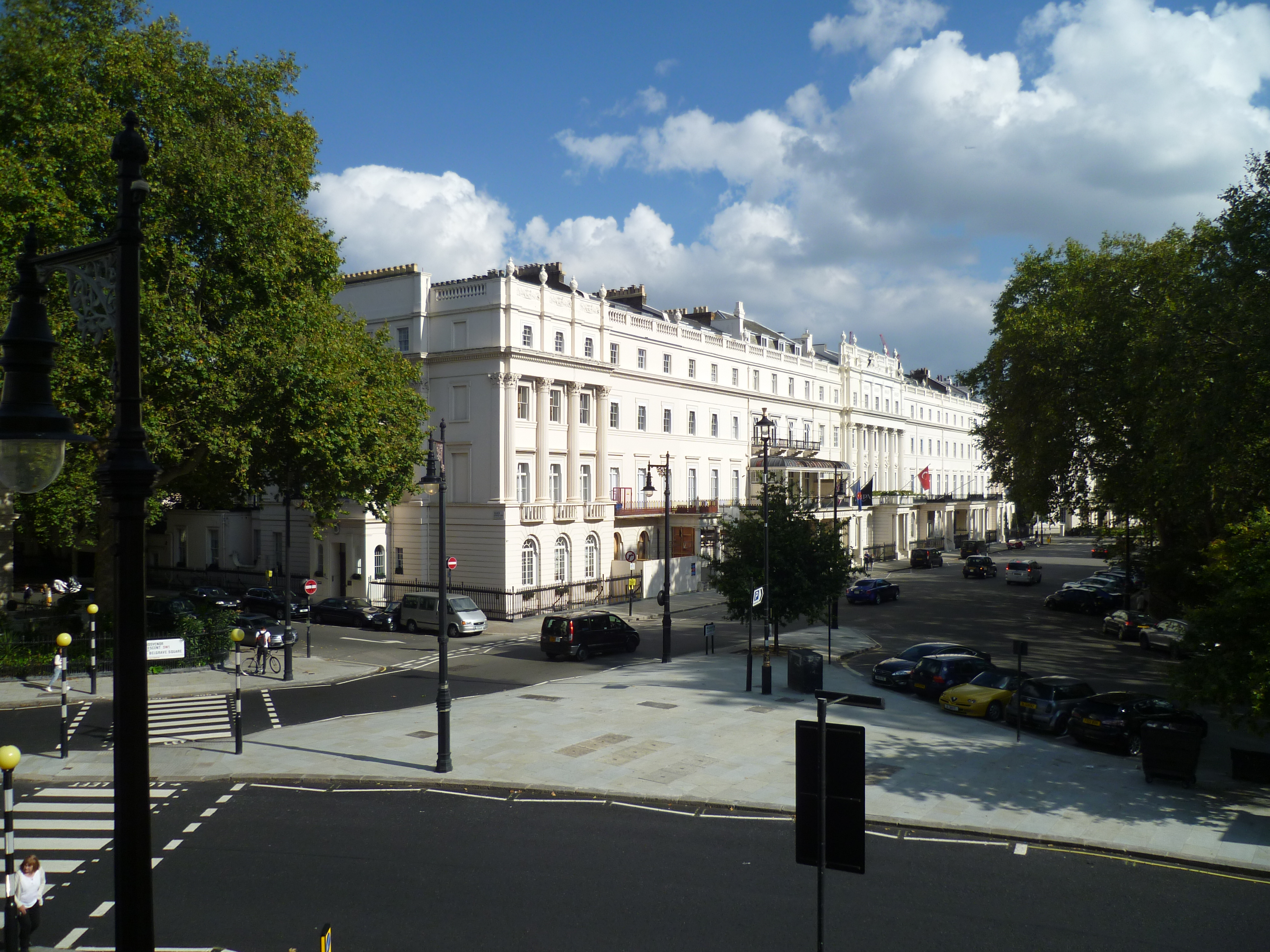 Romanian Cultural Institute